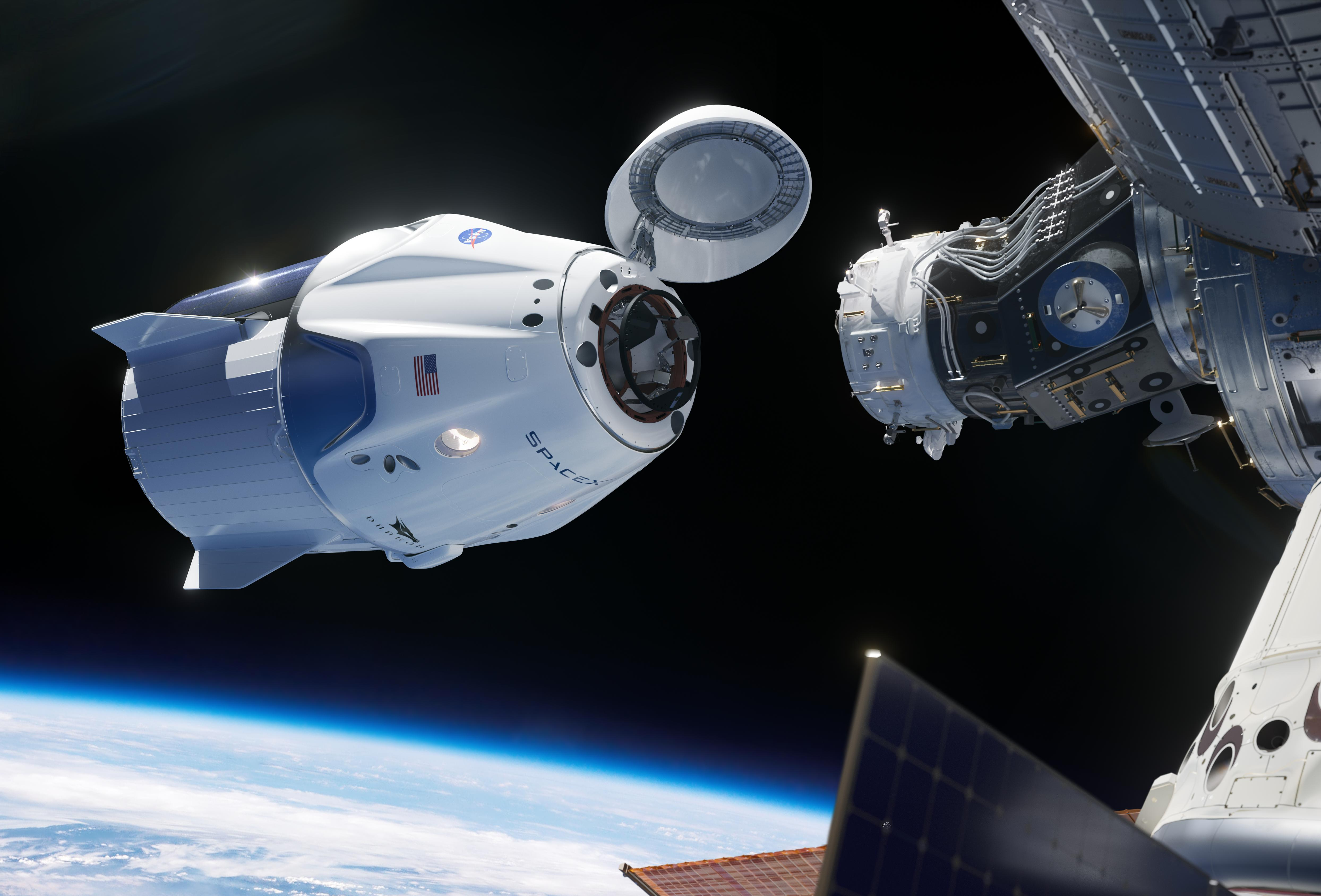 In this illustration, a SpaceX Crew Dragon spacecraft approaches the International Space Station for docking. NASA is partnering with Boeing and SpaceX to build a new generation of human-rated spacecraft capable of taking astronauts to the station and expanding research opportunities in orbit. SpaceX's upcoming Demo-1 flight test is part of NASA’s Commercial Crew Transportation Capability contract with the goal of returning human spaceflight launch capabilities to the United States.